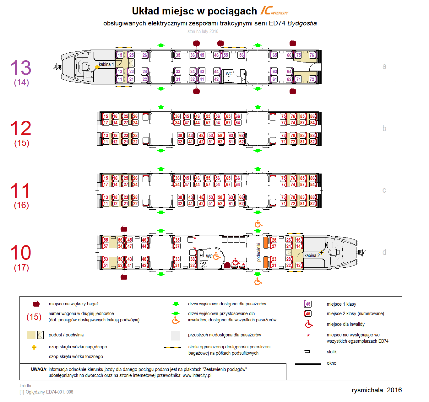 Seating plan of Polish EMU class ED74 (Pesa Bydgostia) used on domestic InterCity services, as of February 2016